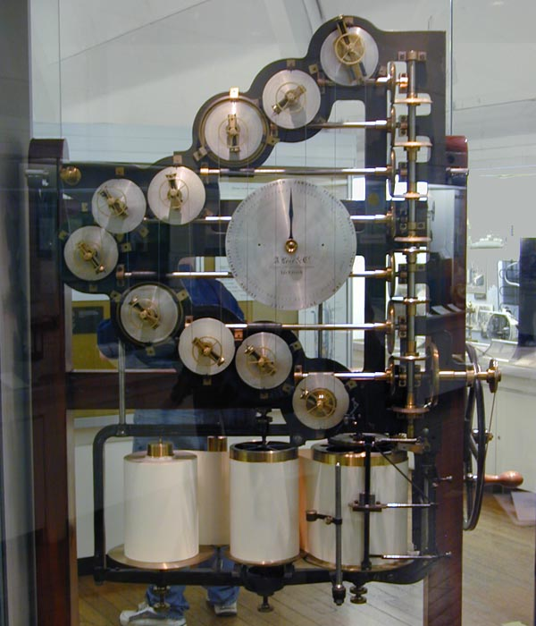 Tide predicting machine, by Sir William Thomson in 1876. The accompanying plaque says: this, the first full sized machine for predicting tides, combined ten tidal components (one pulley for each componenet). It could trace the heights of the tides for one year in about four hours. See-also esp. figure 132. Location: Science Museum, London.